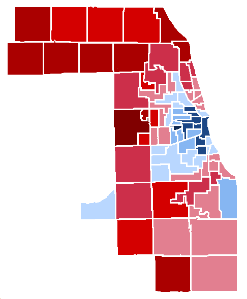 Results of the 1946 Cook County, Illinois Probate Judge election. Relative results courtesy of the November 30, 1946 Chicago Tribune.